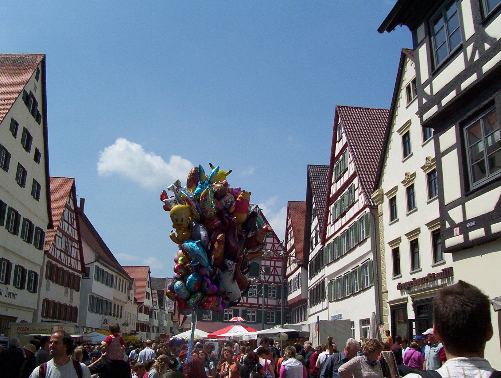 The historical downtown of Riedlingen, during a flea market in 2004